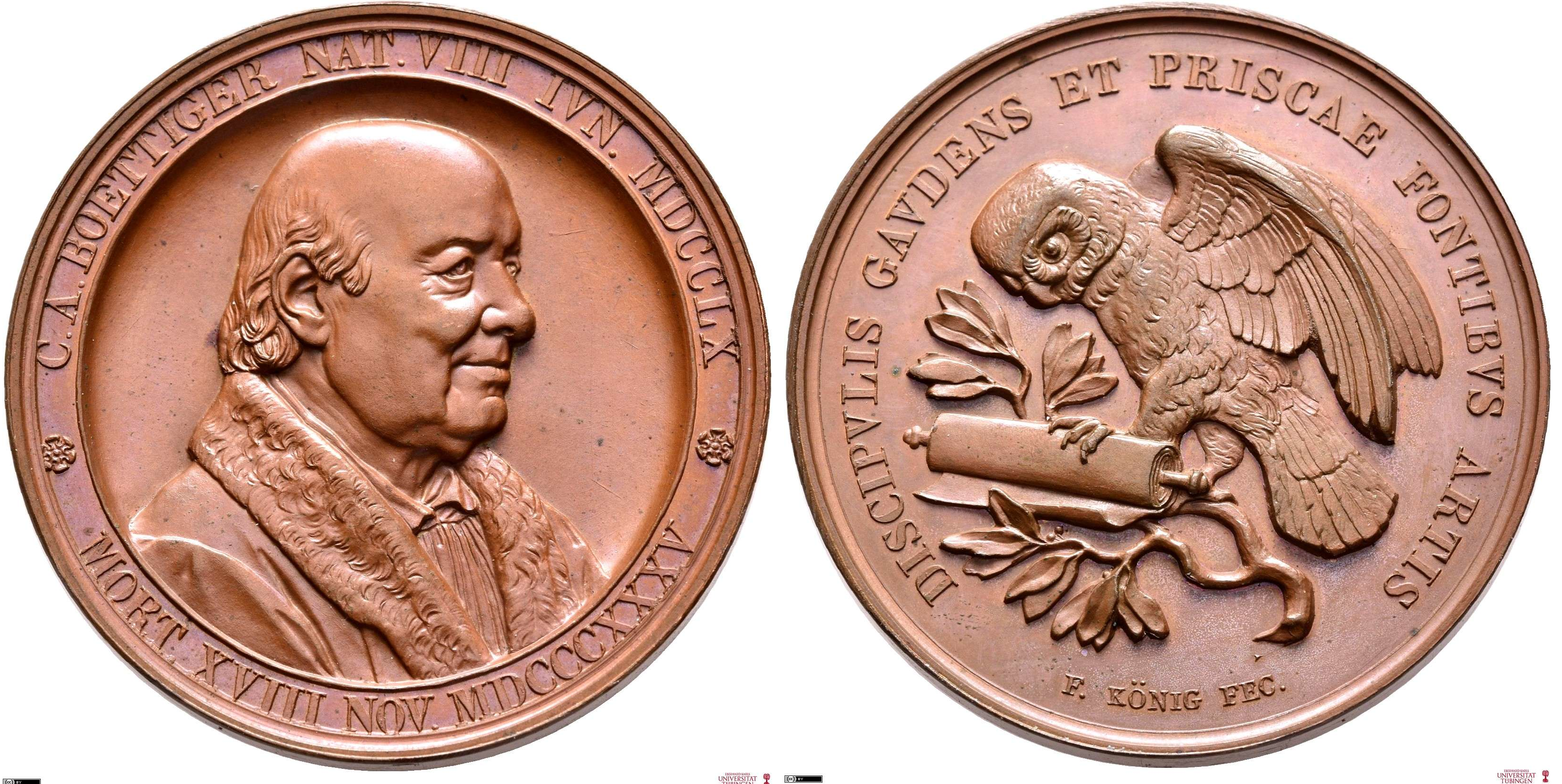 The front side depicts Böttiger surrounded by his name and date of birth and death in Latinised style. The reverse pictures an owl holding a scroll and laurel wreath. This image is enclosed by a Latin inscription. The engraver Anton Friedrich König signed below.